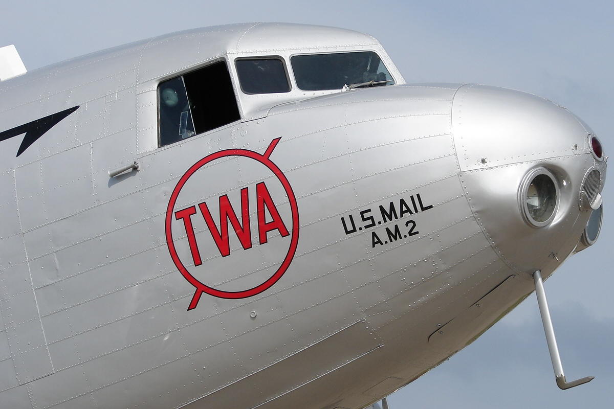 TWA DC-2 @ EAA AirVenture 2010